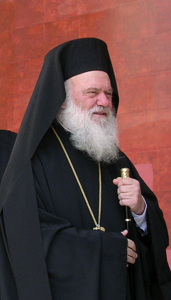 Ieronymos II, Archbishop of Athens and All Greece